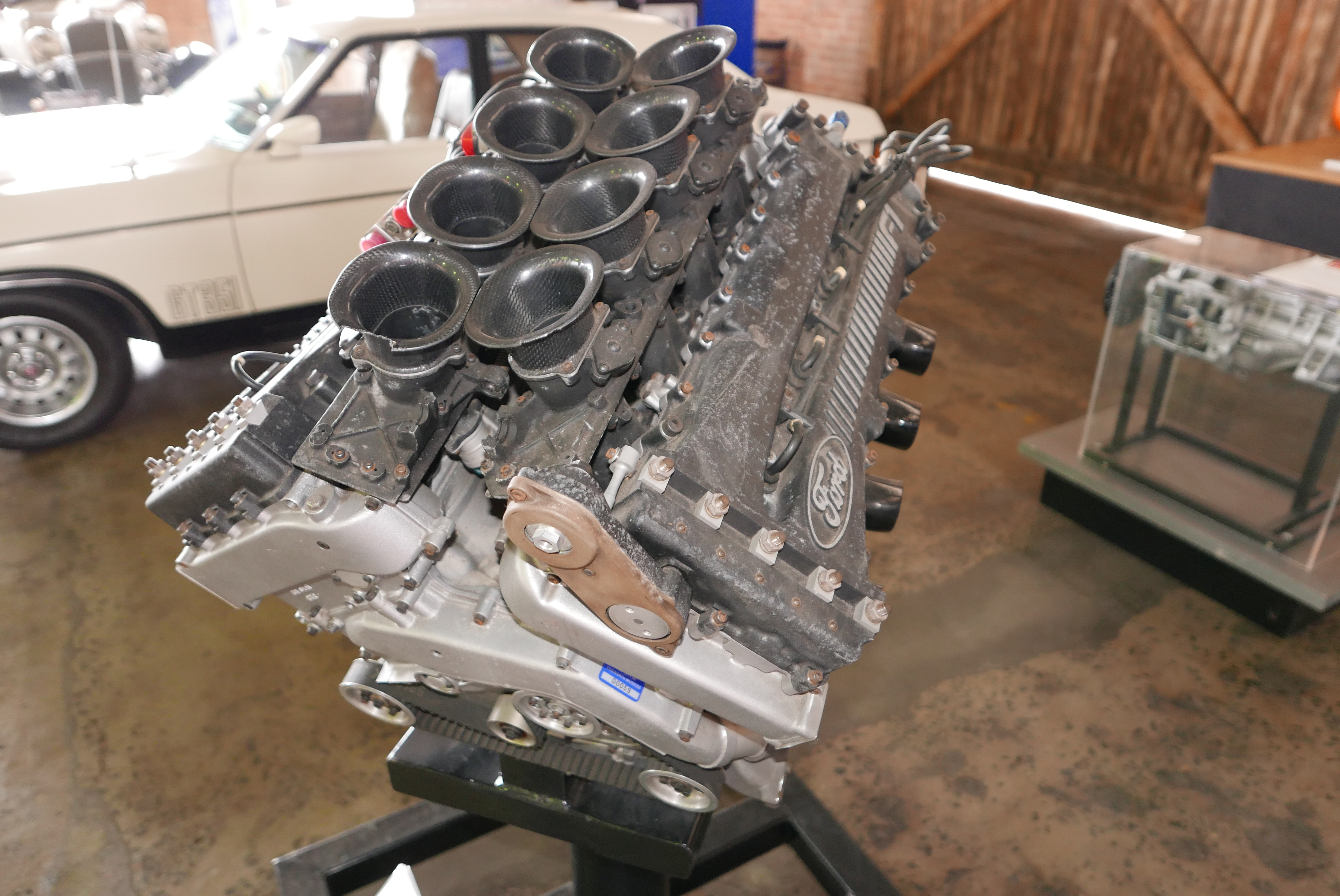 1989–1993 Ford Cosworth HB Formula One engine. Photographed at the Geelong Museum of Motoring and Industry, North Geelong, Victoria, Australia.